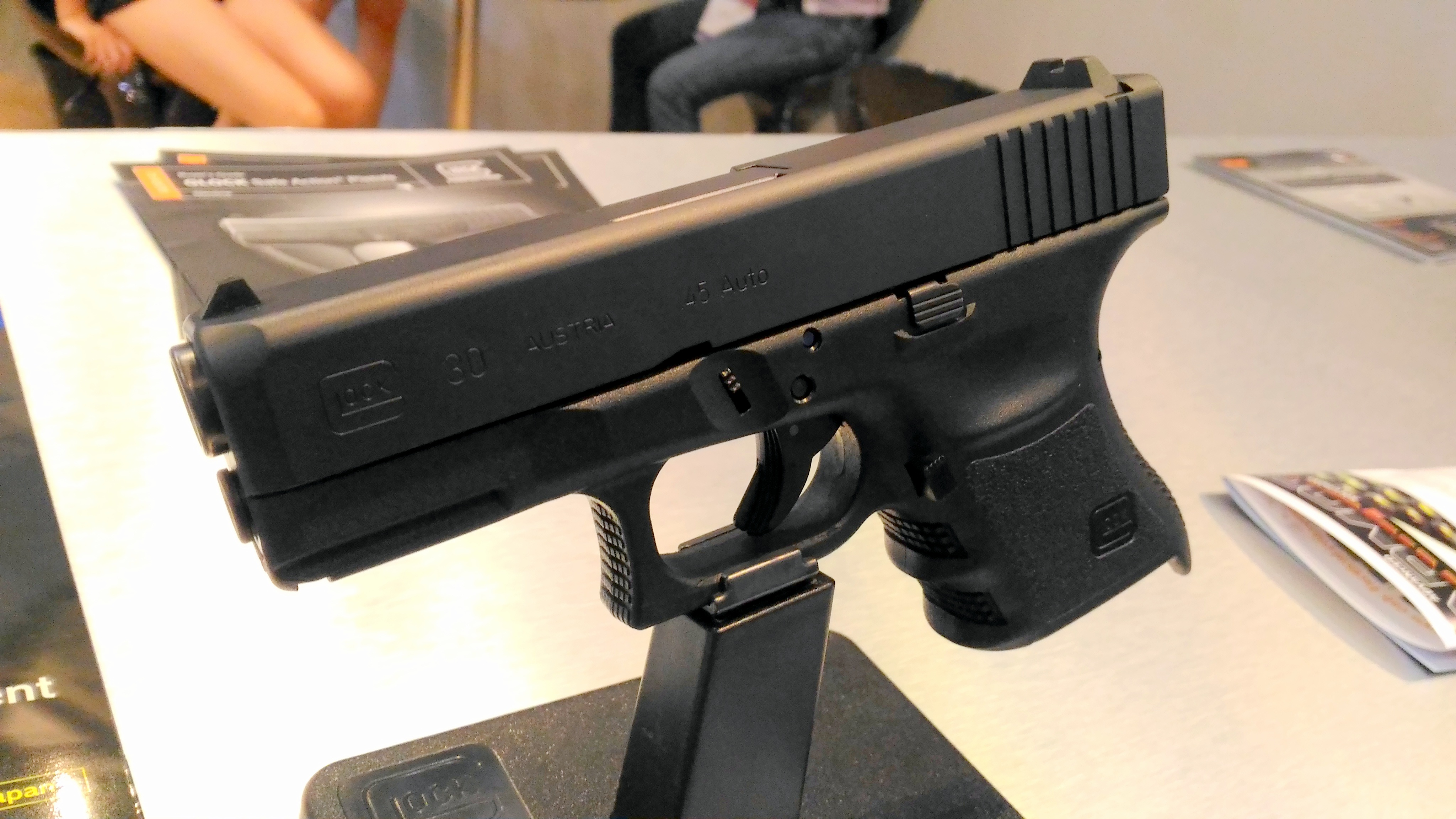 The possible future official sidearm of the Armed Forces of the Philippines (AFP), the Glock 30 made by the Austrian company, Glock. Photo taken during the 2016 Asian Defence and Security (ADAS) Trade Show at the World Trade Center in Pasay, Metro Manila